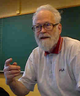 Norwegian political activist and disarmament agitator Ole Andreas Kopreitan (1937-2011)